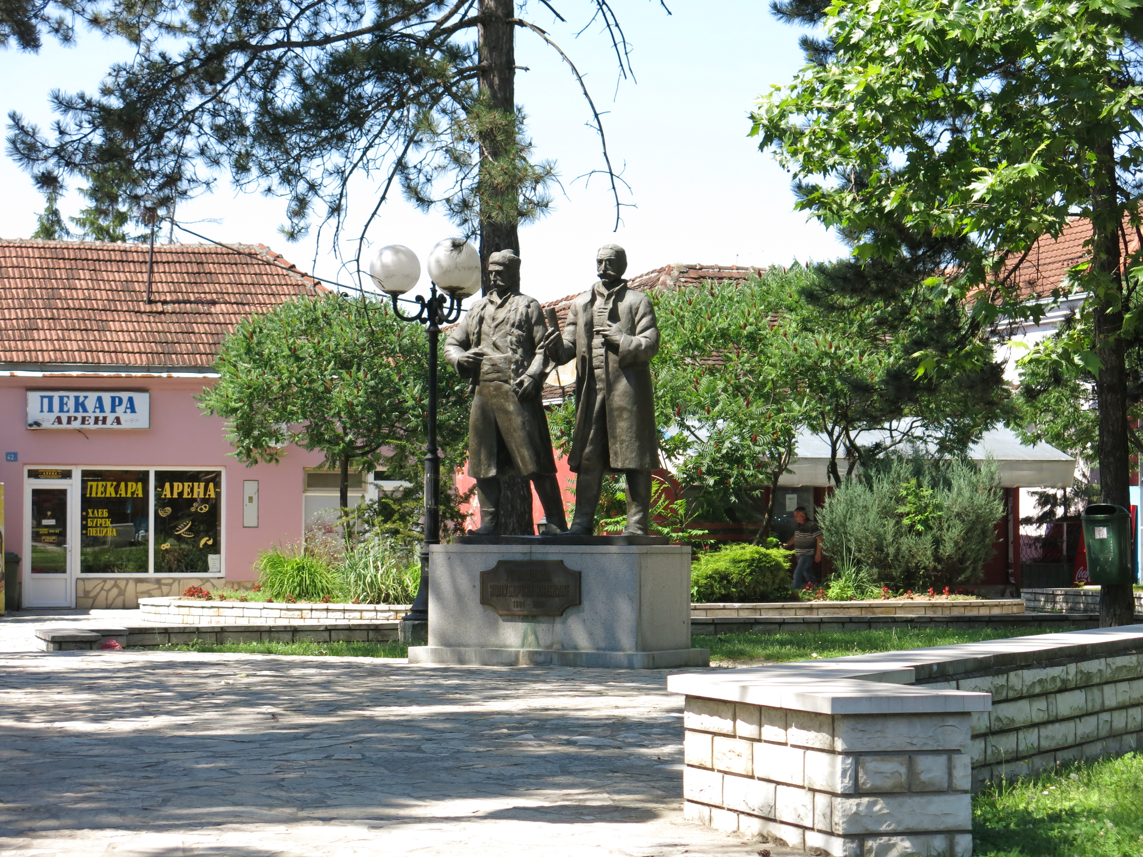 Mionica, Town park